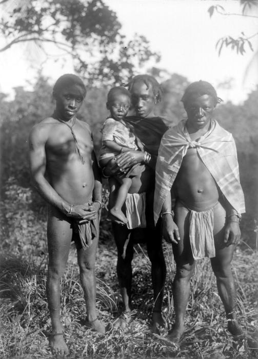 Negative. All three are wearing a Kamisa. The young man on the left is wearing an amulet around his neck, the youth on the right is wearing a putu kile around his shoulders. Portrait of three Maroon men and a child in Suriname.